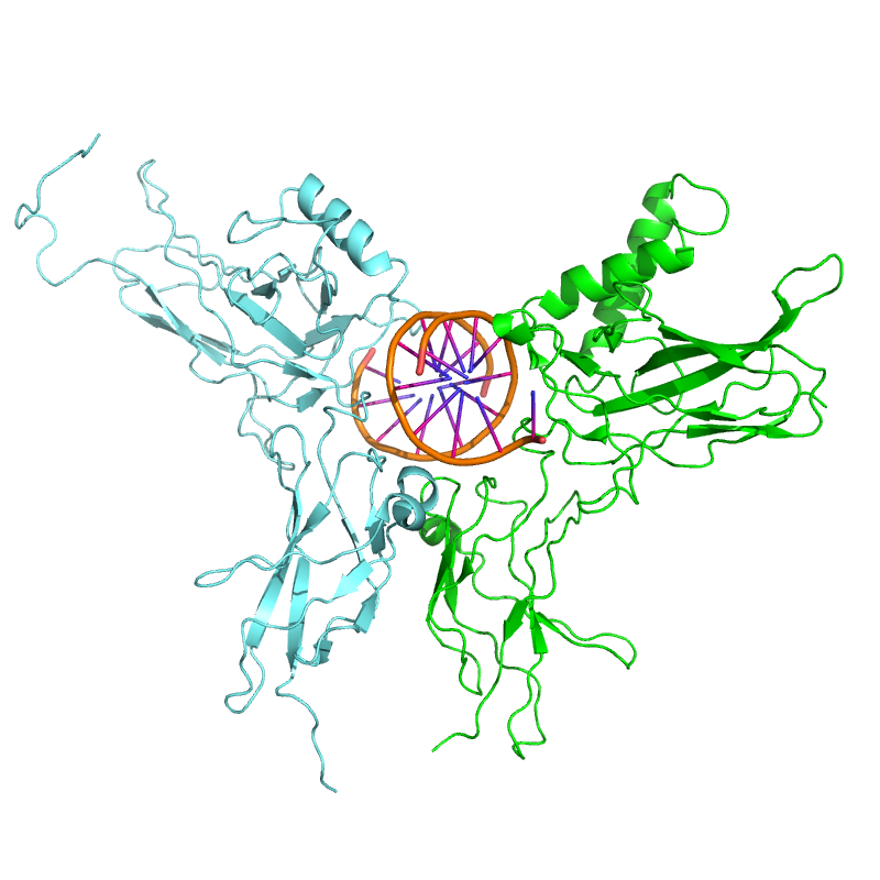 Crystal structure of the NF-kB p100 (green) and RelB (cyan) heterodimer complexed with DNA